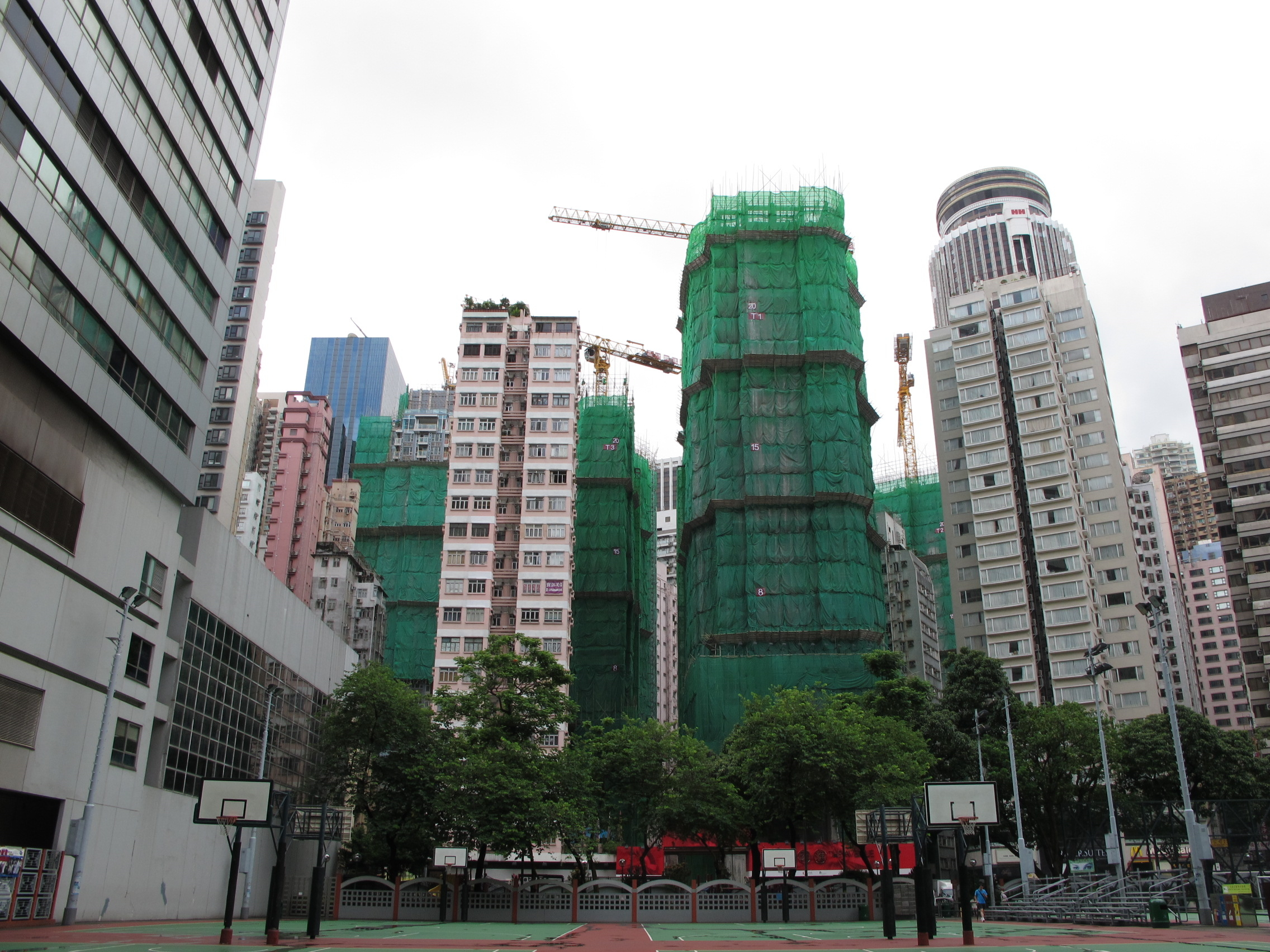 The Avenue Construction Site in Lee Tung Street